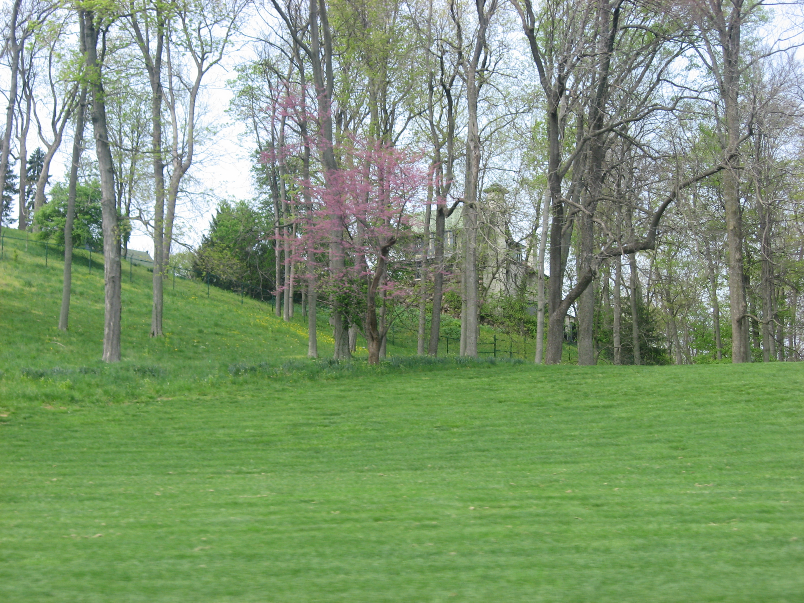 View through the trees of the rebuilt Charles F. Kettering House, located off Southern Boulevard in Kettering, Ohio, United States. Built in 1914, it was declared a National Historic Landmark in 1977; a 1995 fire resulted in the completely new building seen here.